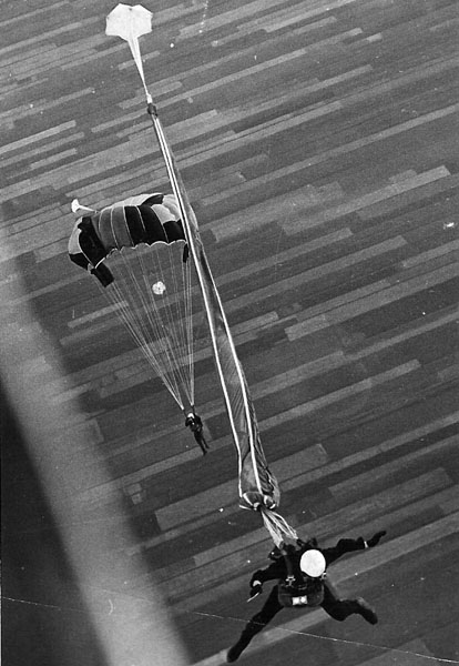 Parachut SW-4